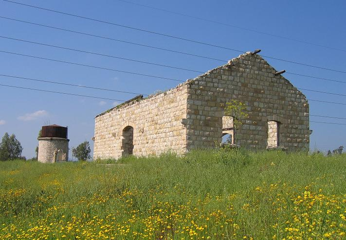 The old train station of Beit Shean, Israel